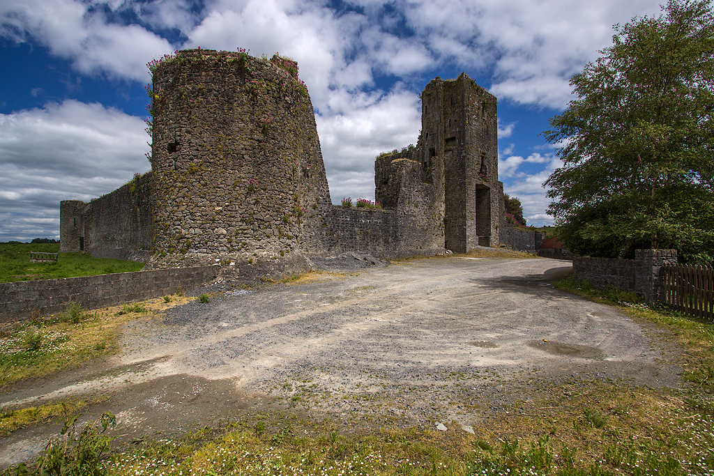 Castles of Munster: Liscarroll, Cork Sir Philip Percival acquired this 13c castle fortress from the Barrys during the 1620s. After a 13 day siege of the castle in 1642 by a Confederate army under Gerald Barry, the castle was immediately retaken by Lord Inchiquin. The loss of the curtain wall on either side of the gatehouse, and the near total destruction of the SE tower was the result of a Cromwellian bombardment by Sir Hardress Waller in 1650, and the subsequent slighting.